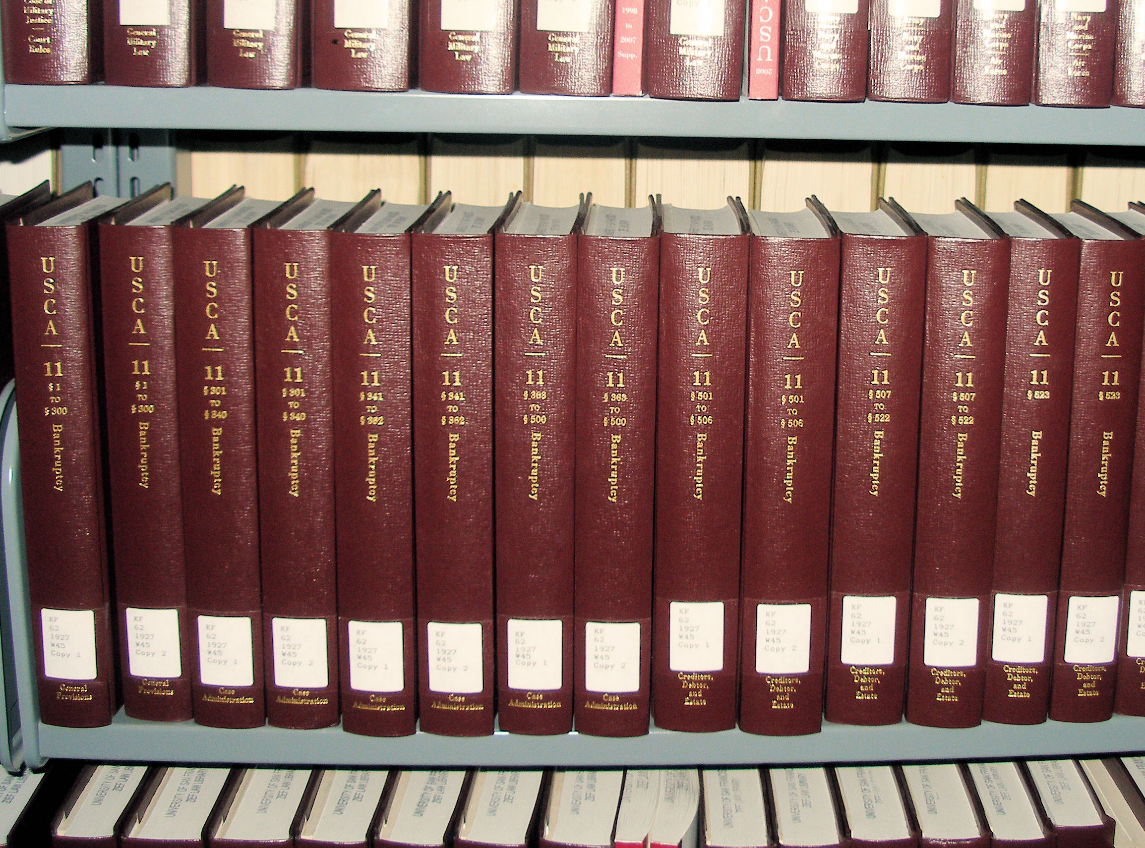 Part of Title 11 of the United States Code (the Bankruptcy Code) on a shelf at a law library in San Francisco. Photographed by user Coolcaesar on March 14, 2009.